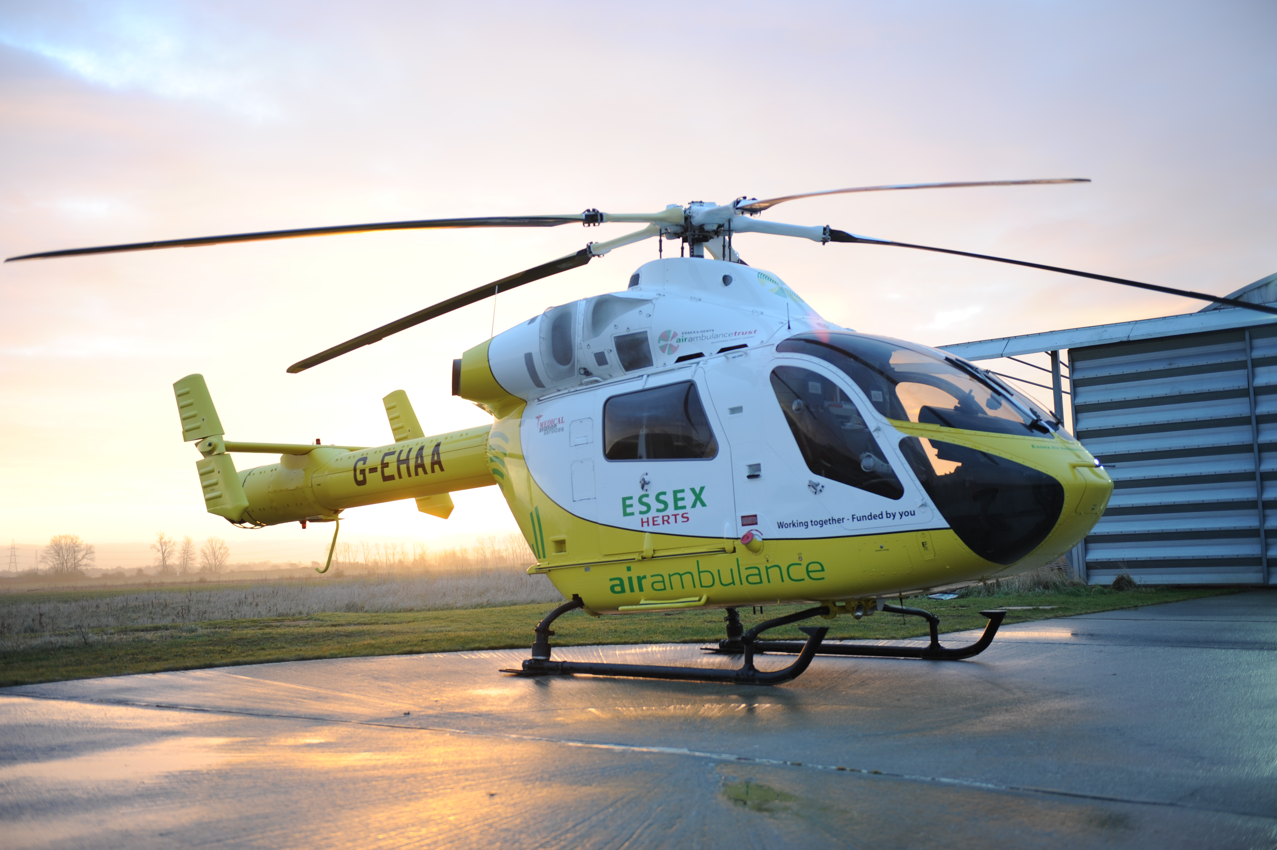 Essex Air Ambulance Helicopter Emergency Medical Service